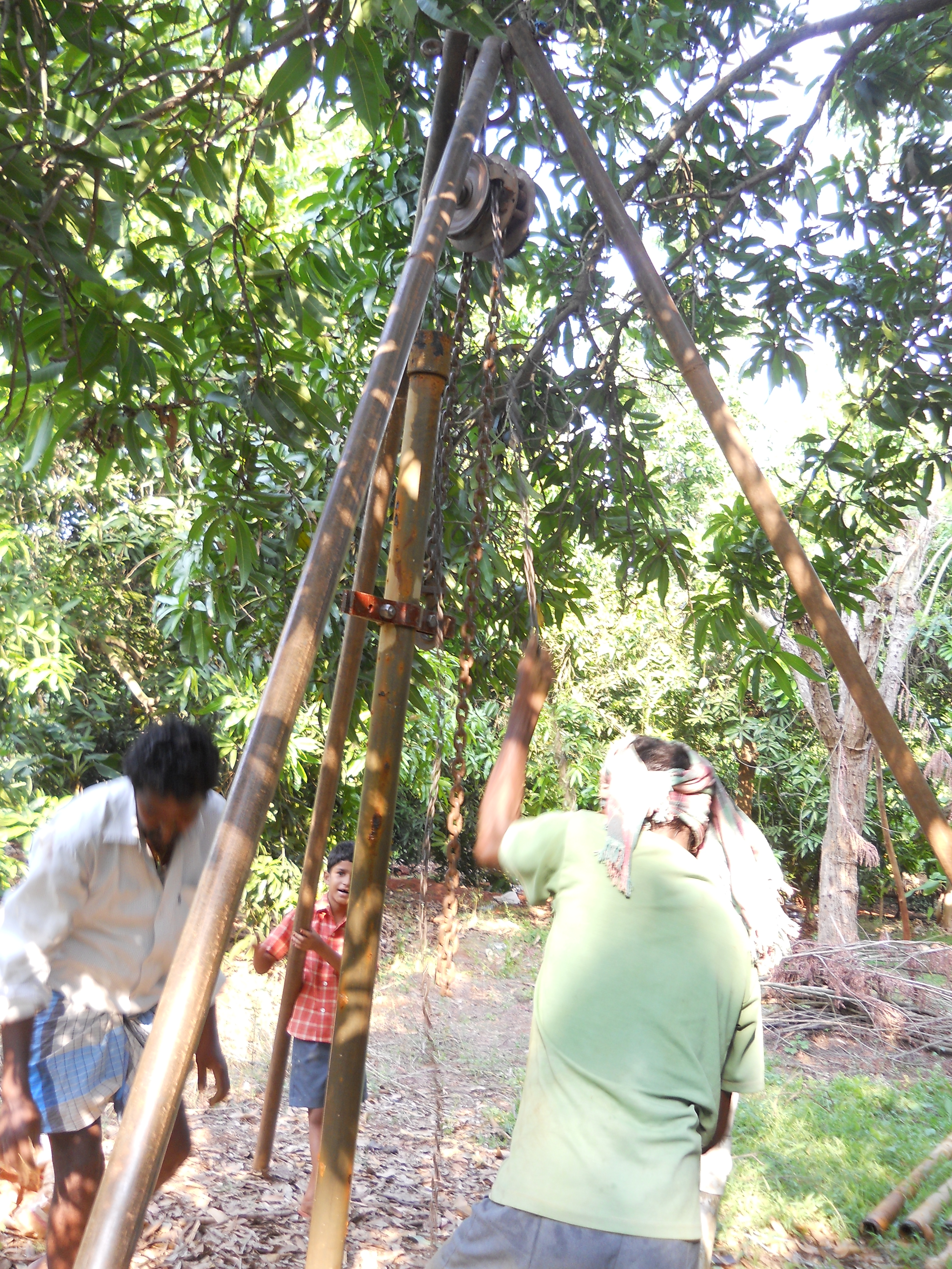 Chain Block